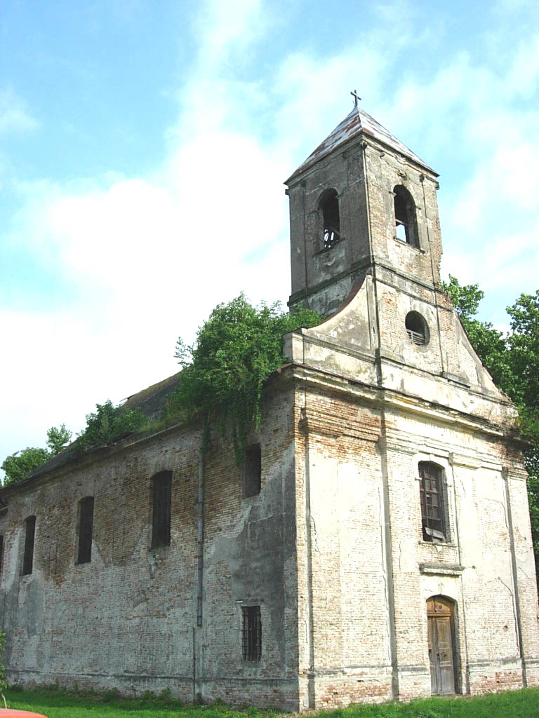 The Saint Anne Roman Catholic Church in Bačko Novo Selo, Vojvodina, Serbia.